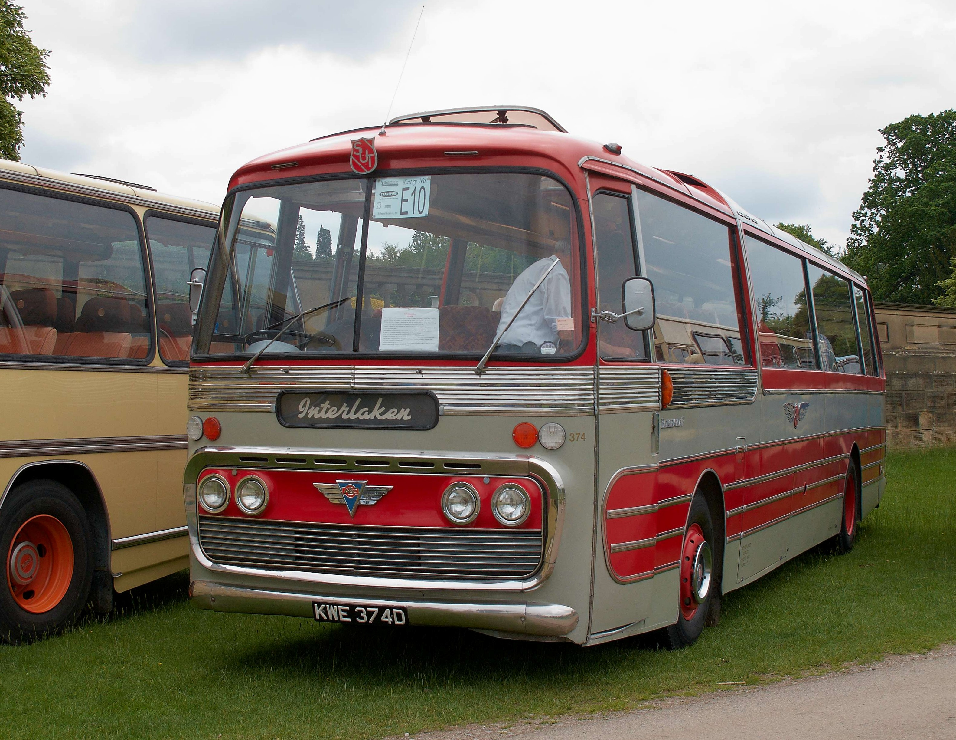 Plaxton Panorama body on AEC Reliance chassis.. Ex Sheffield United Tours